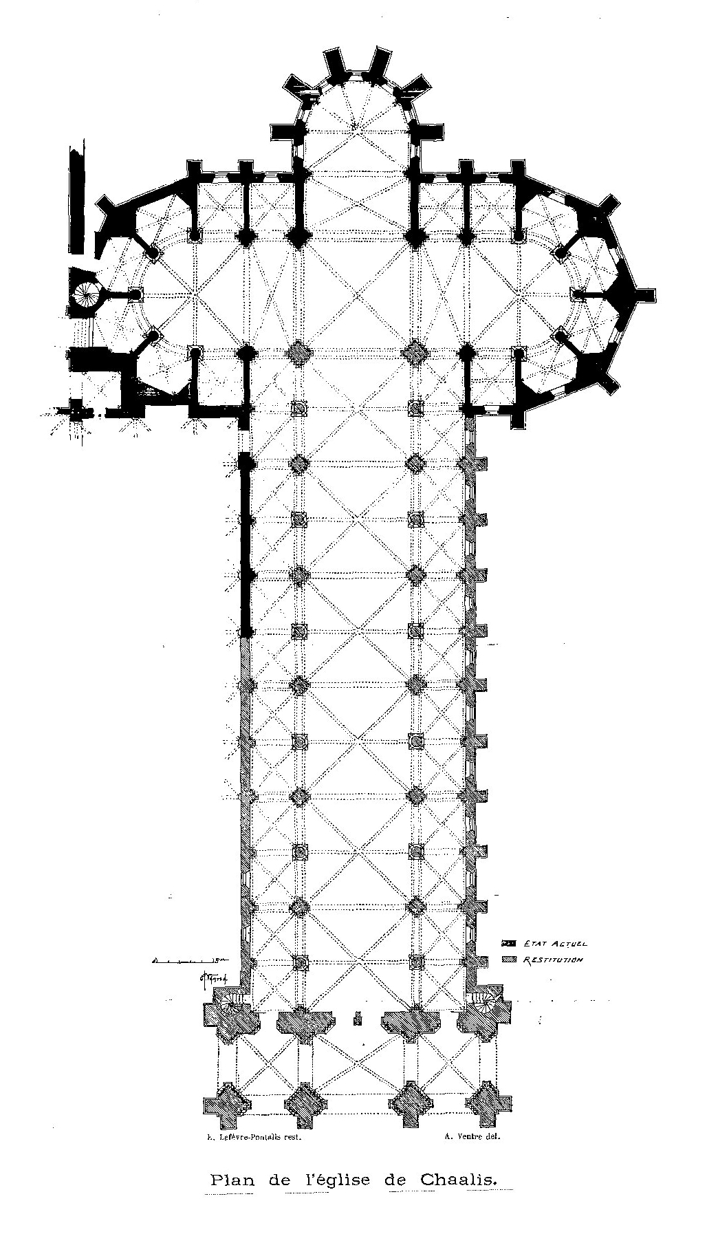 Floor plan of the church of Chaalis abbey. Oise, France (1202-1219). Drawing by Eugène Lefèvre-Pontalis. Extract from L'église abbatiale de Chaalis (Oise), Caen, Henri Delesques Imprimeur-éditeur, 1903